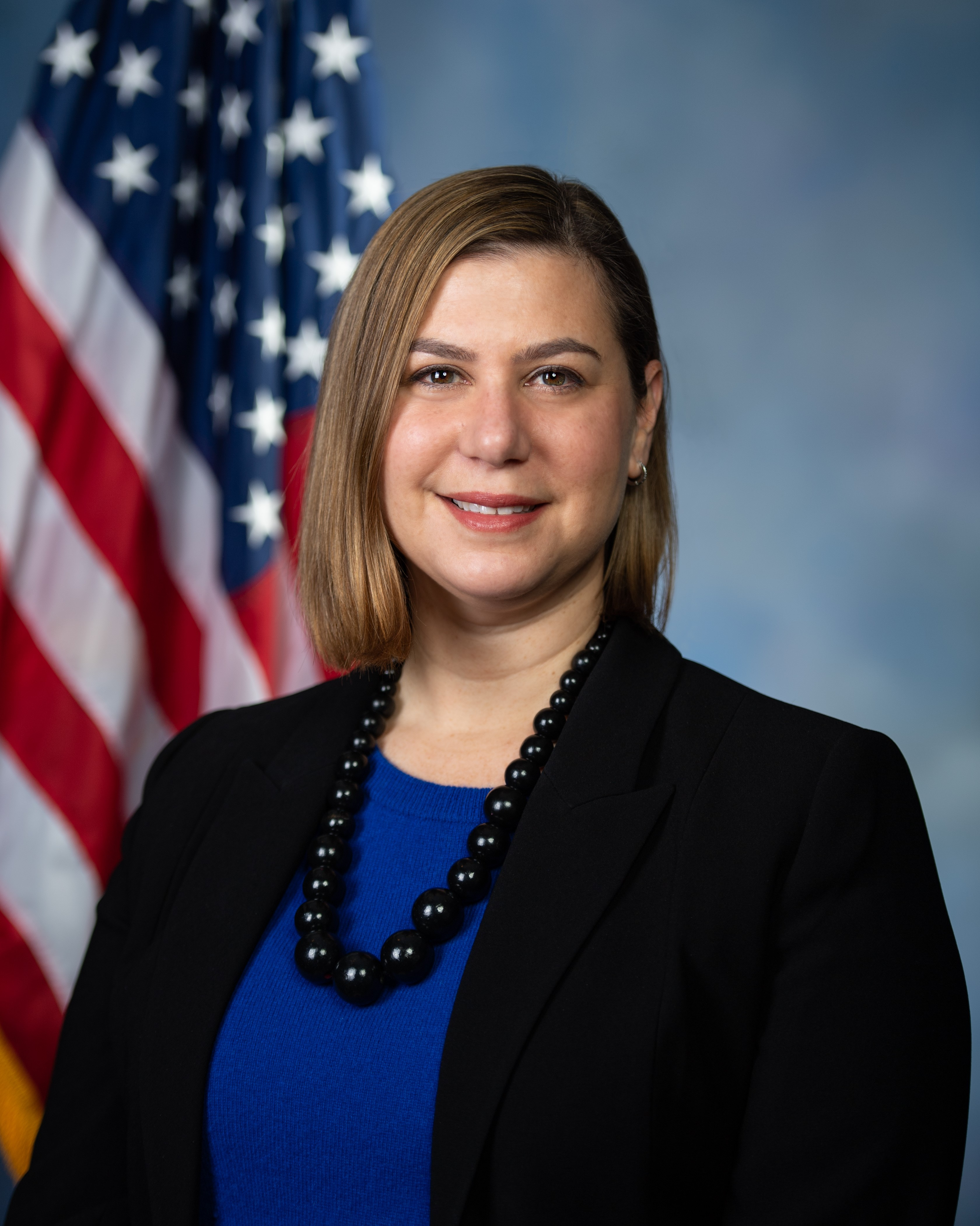 The official headshot of Rep. Elissa Slotkin (D-MI)